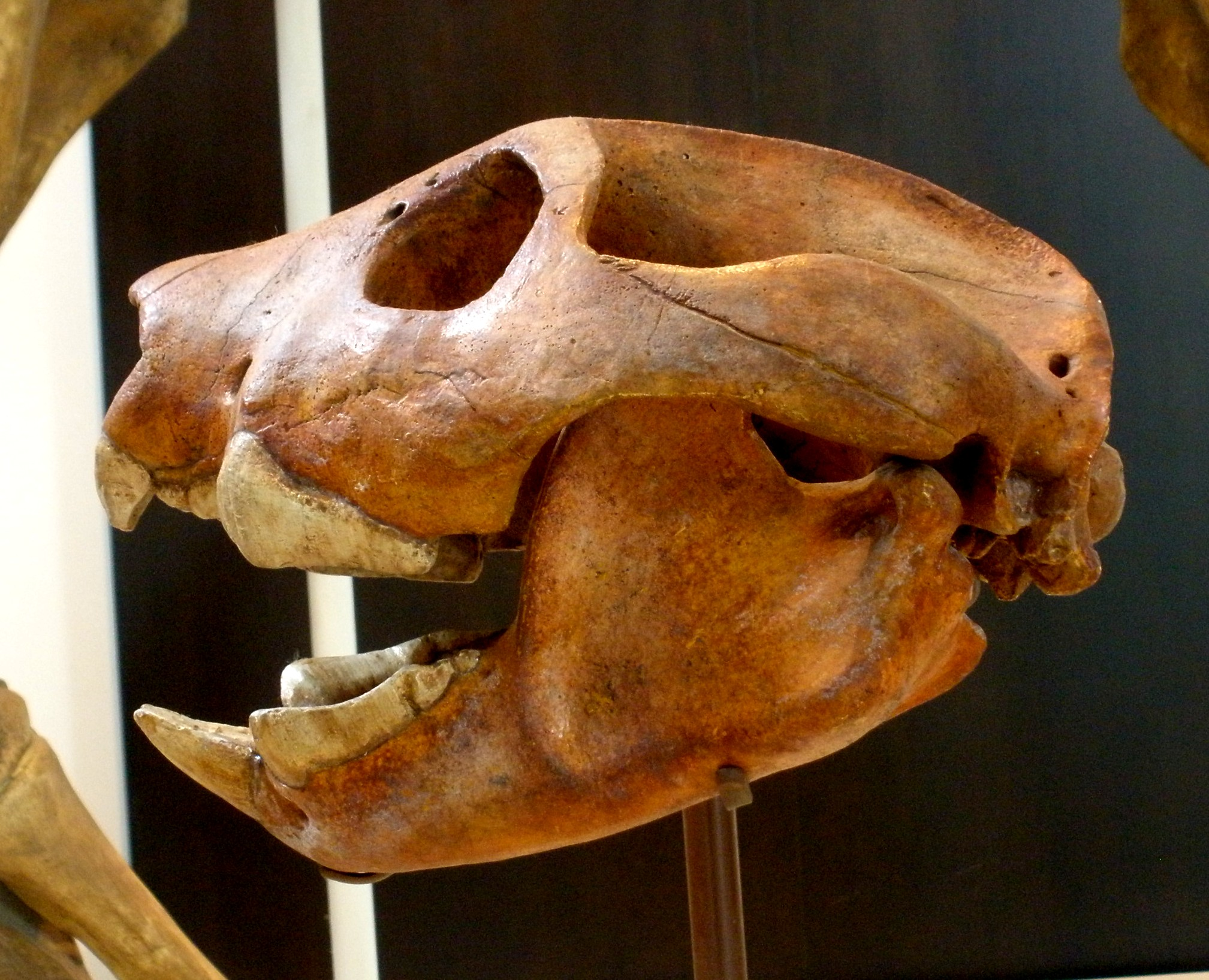 fossil of Thylacoleo, an extinct marsupial